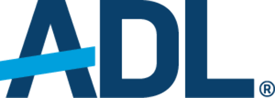 Anti-Defamation League logo